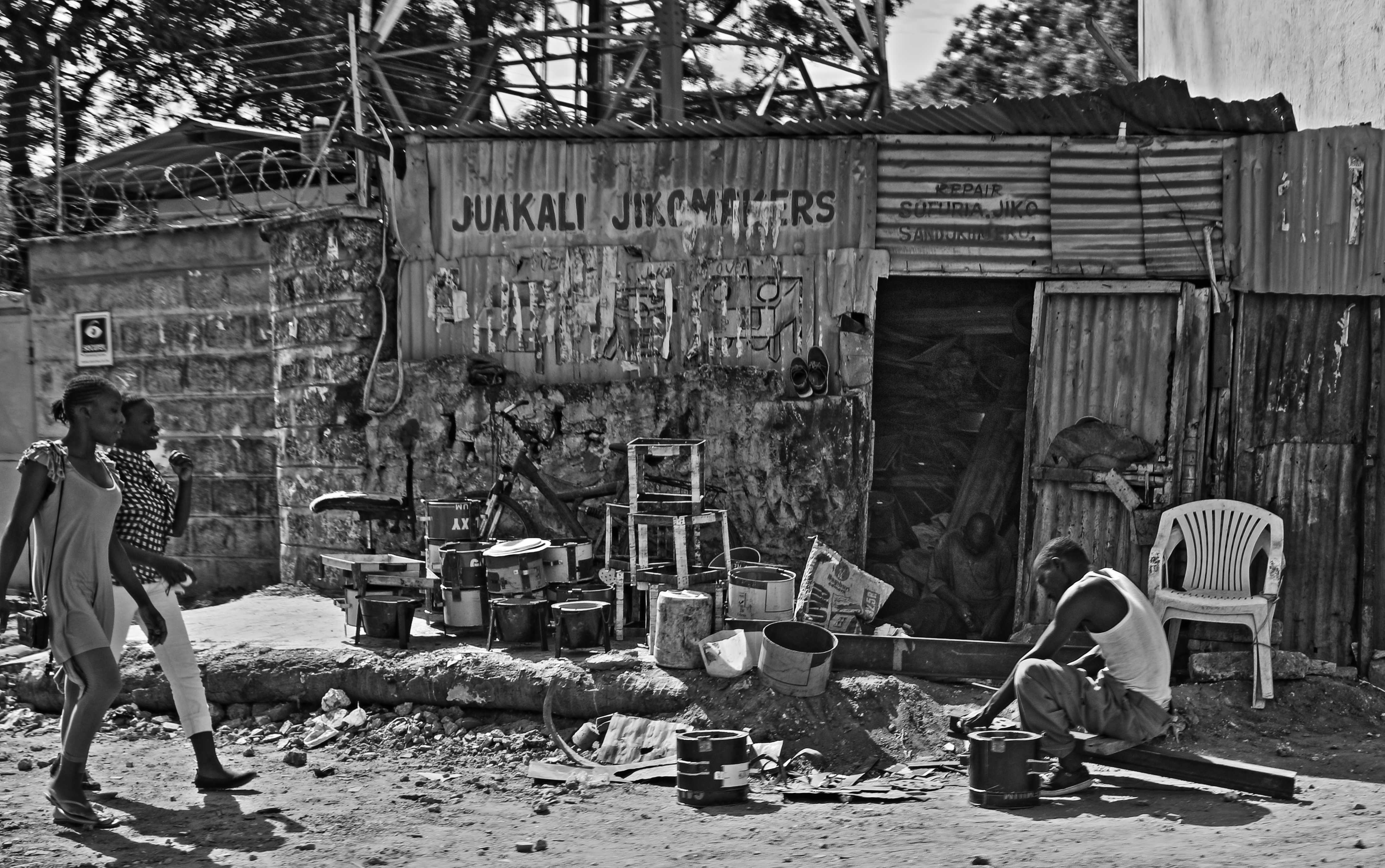 A man works to make charcoal stoves at Kikoani, Mombasa, Kenya This is an image of "African people at work" from Kenya